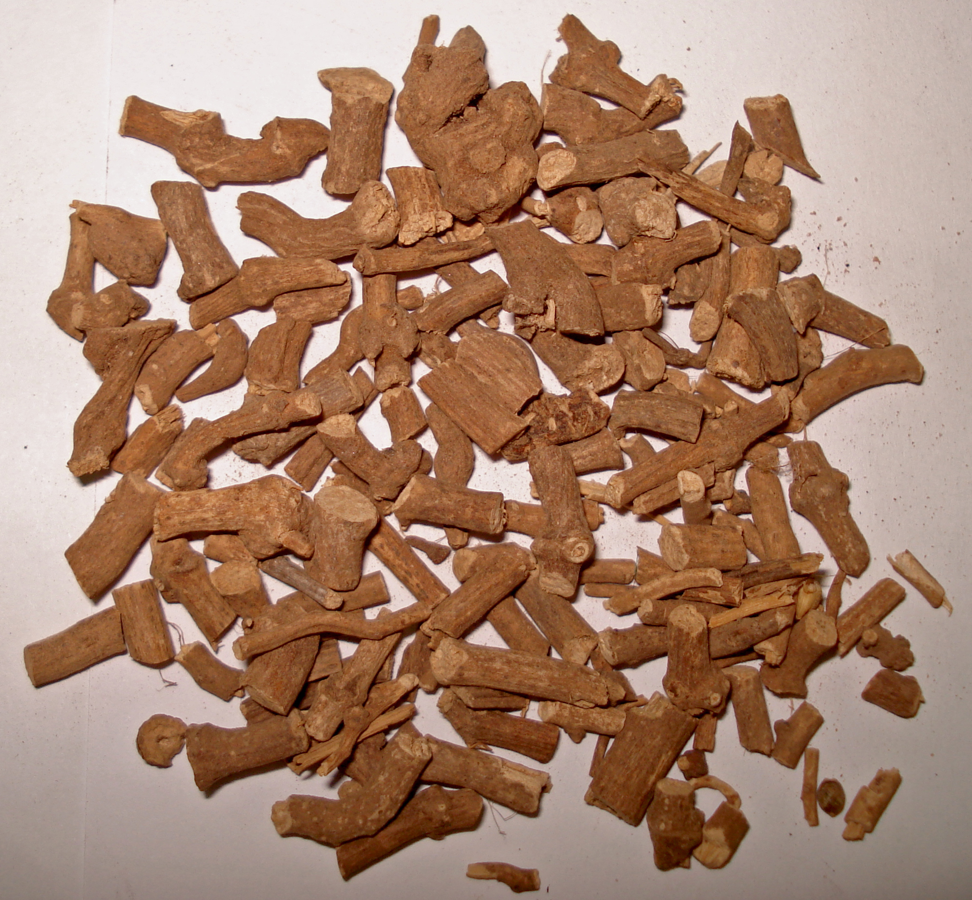 Pipramol also known as ganthoda; it is the root of long pepper